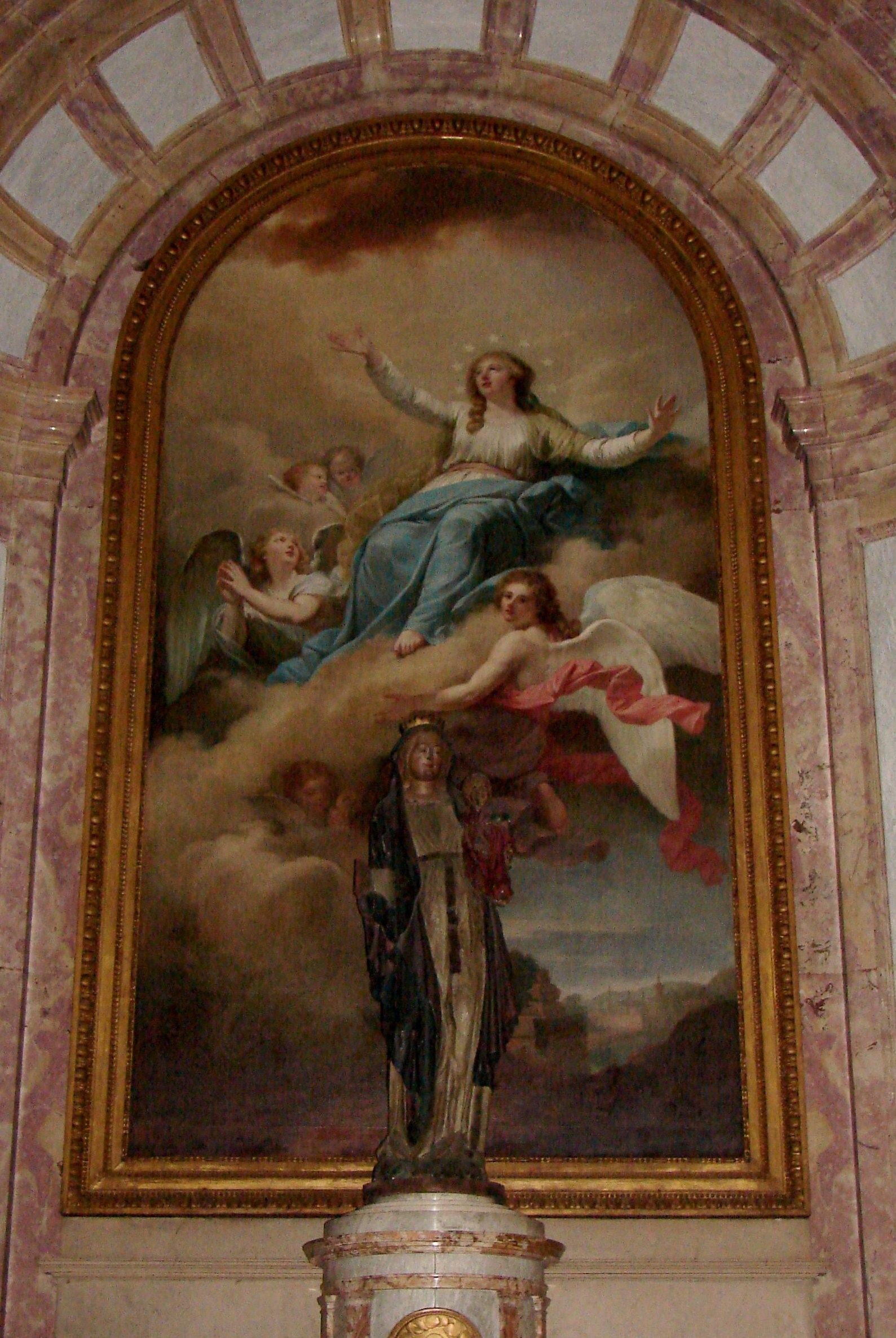 Marie assumption by Chazerand in 1791. This drawing is conserved in Sainte-Madeleine church of Besançon (Doubs, France).